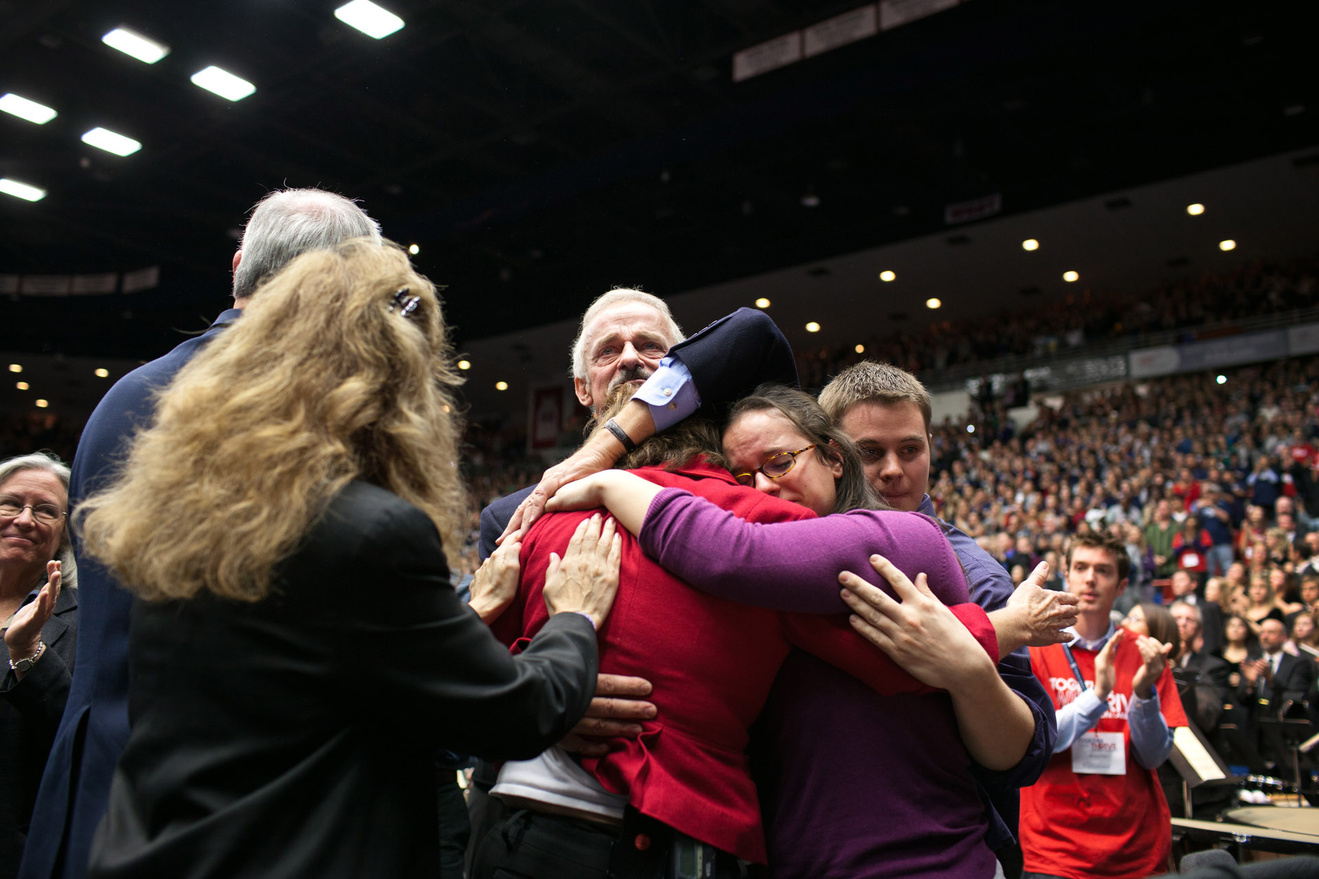 Audience members embrace in the McKale Center as U.S. President Barack Obama speaks during a memorial event for the victims of the 2011 Tucson shooting.